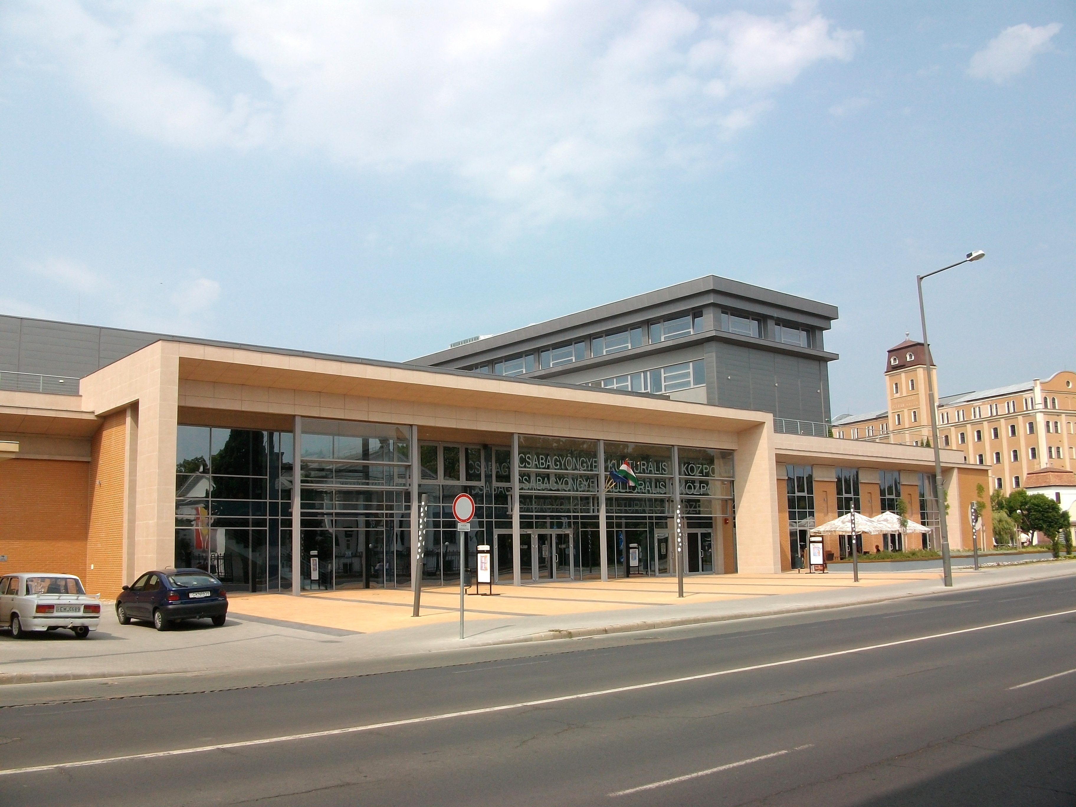 Csabagyöngye Cultural Center, Békéscsaba, Hungary